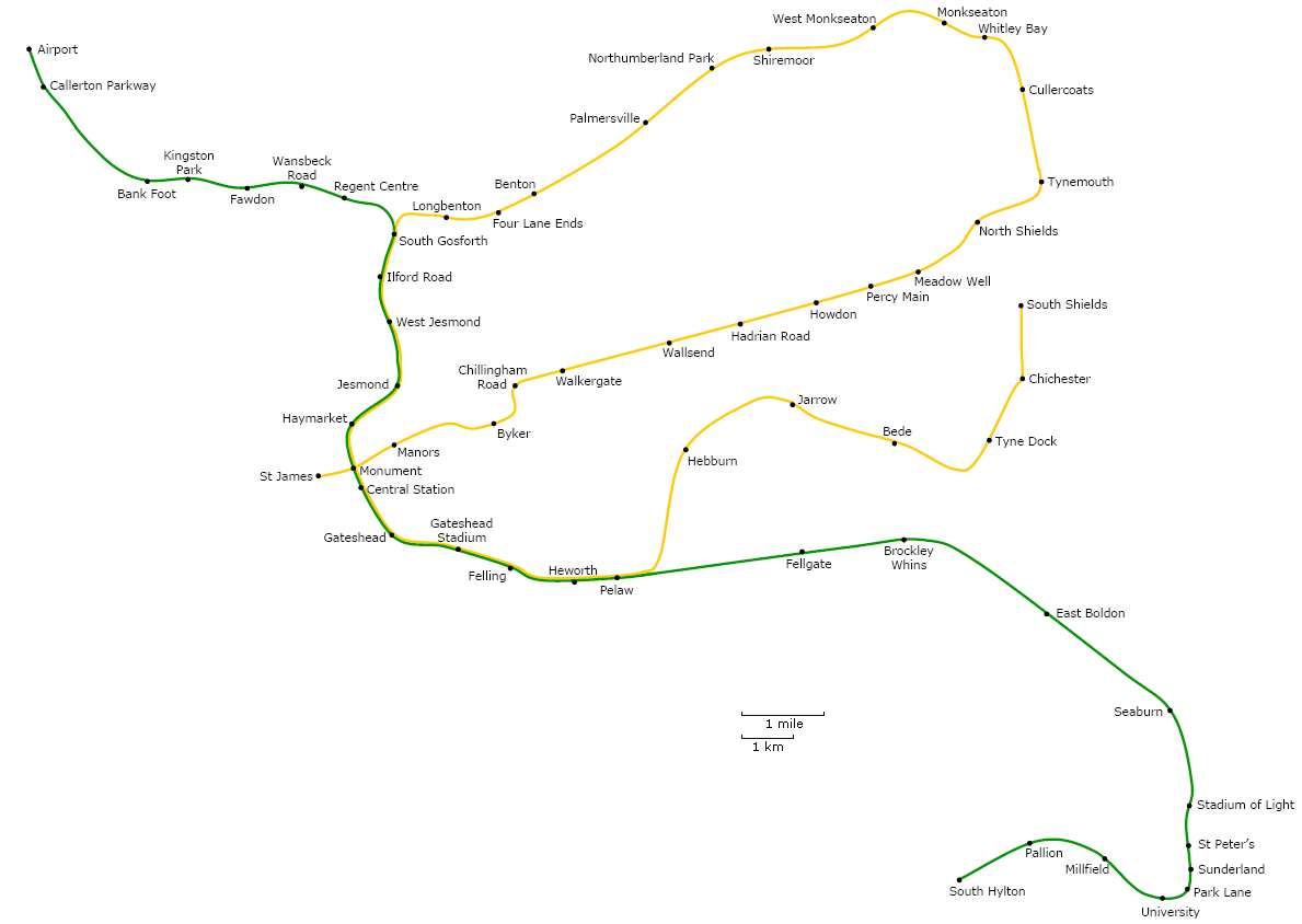 Geographically accurate map of the Tyne and Wear Metro system.